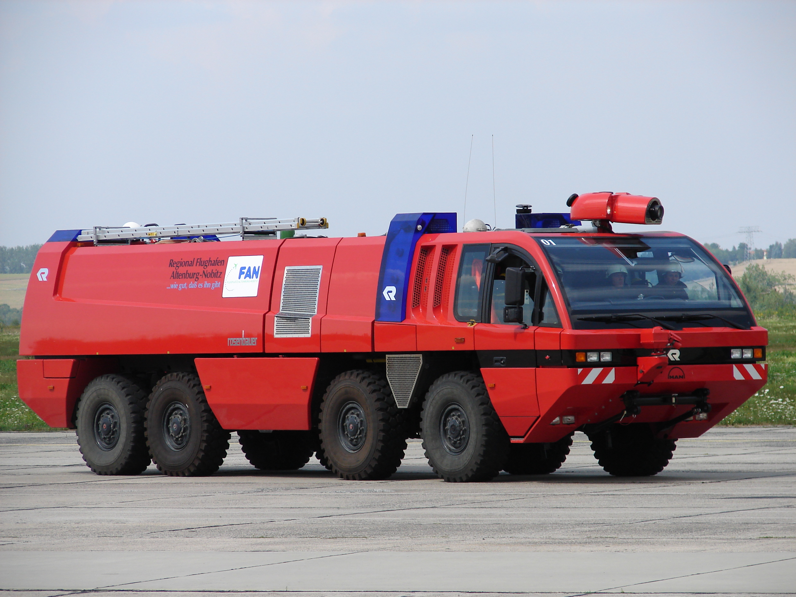 Airport crash tender Panther 8x8 at Leipzig-Altenburg Airport